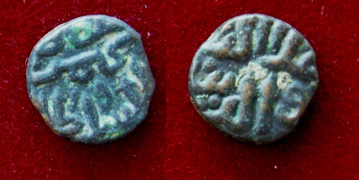 Copper coin of Alauddin Bahman shah from my personal collection.